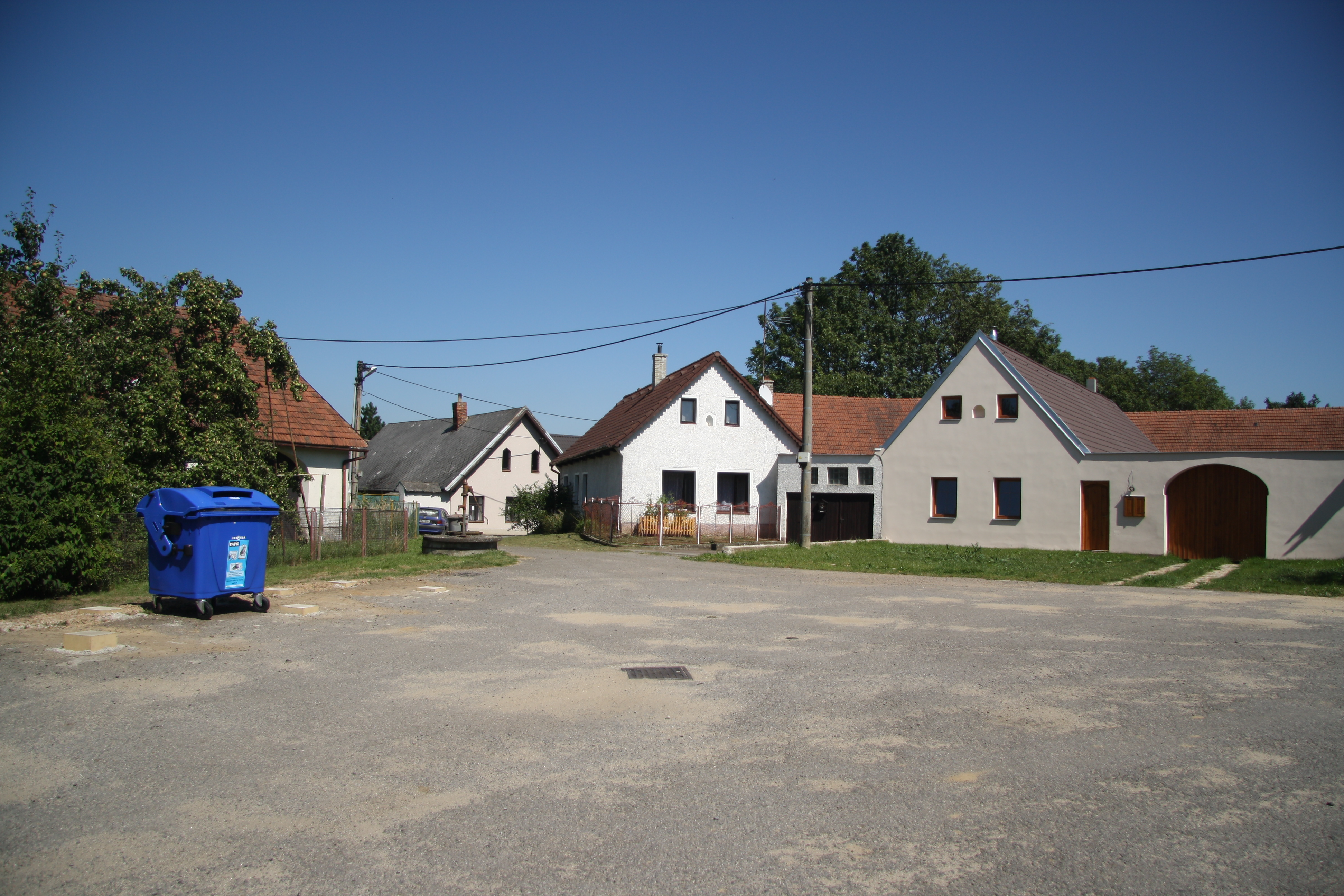 Center of Suky, Ostrov nad Oslavou, Žďár nad Sázavou District.